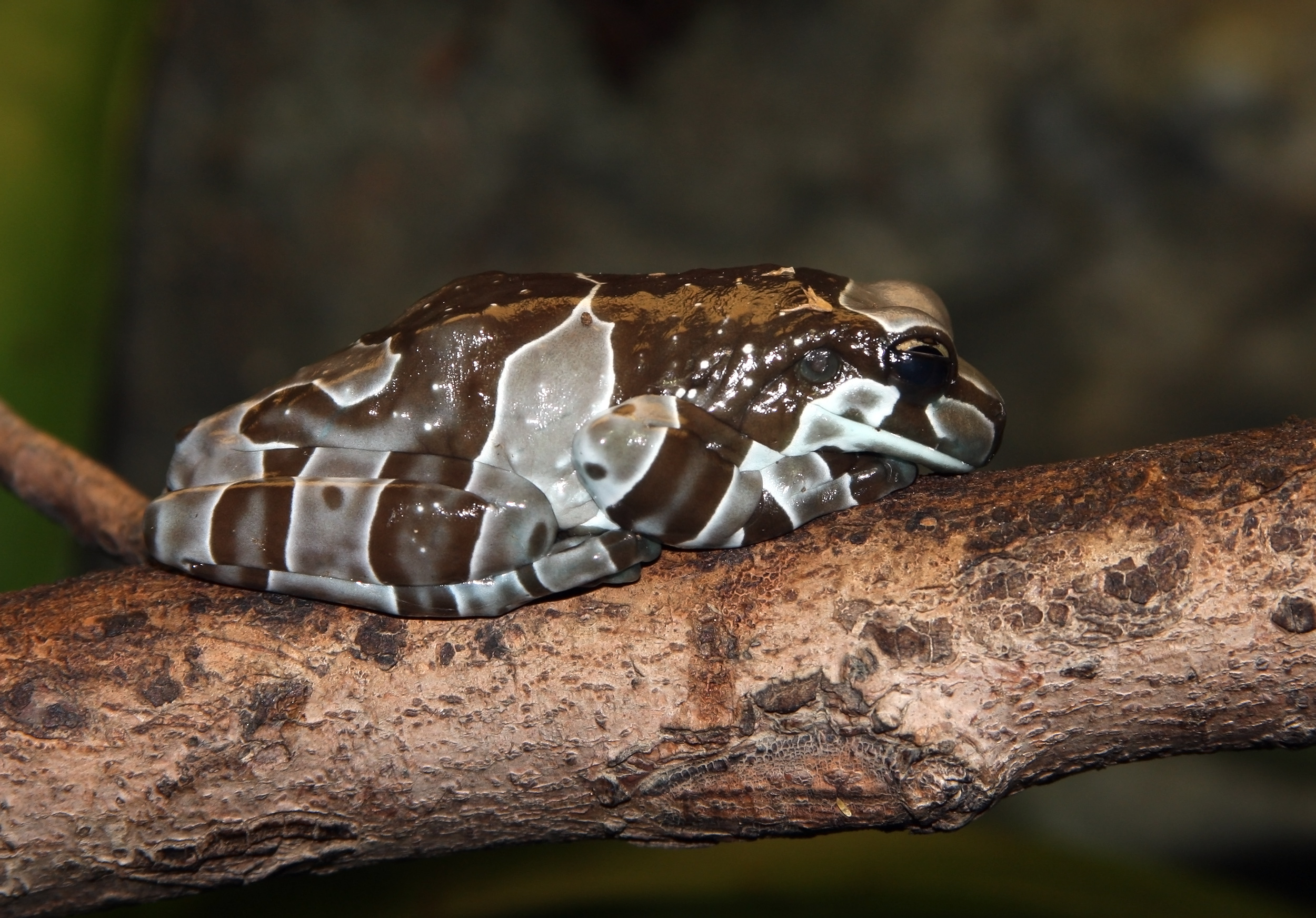 The Amazon milk frog (Trachycephalus resinifictrix)